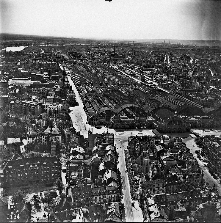 Frankfurt main station